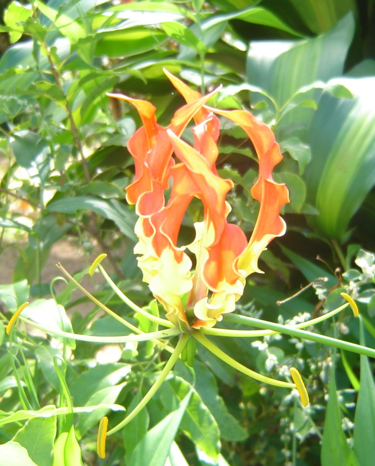 නියඟලා මලක් (Gloriosa superba)